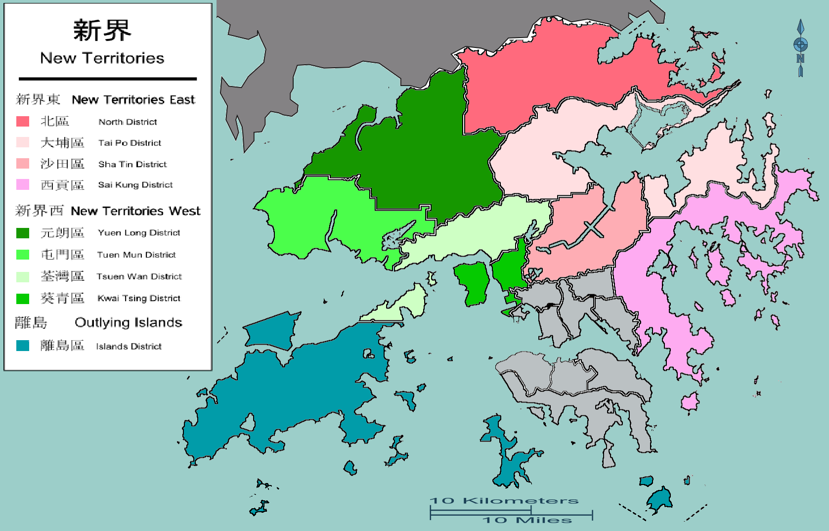 Districts of New Territories, Hong Kong.